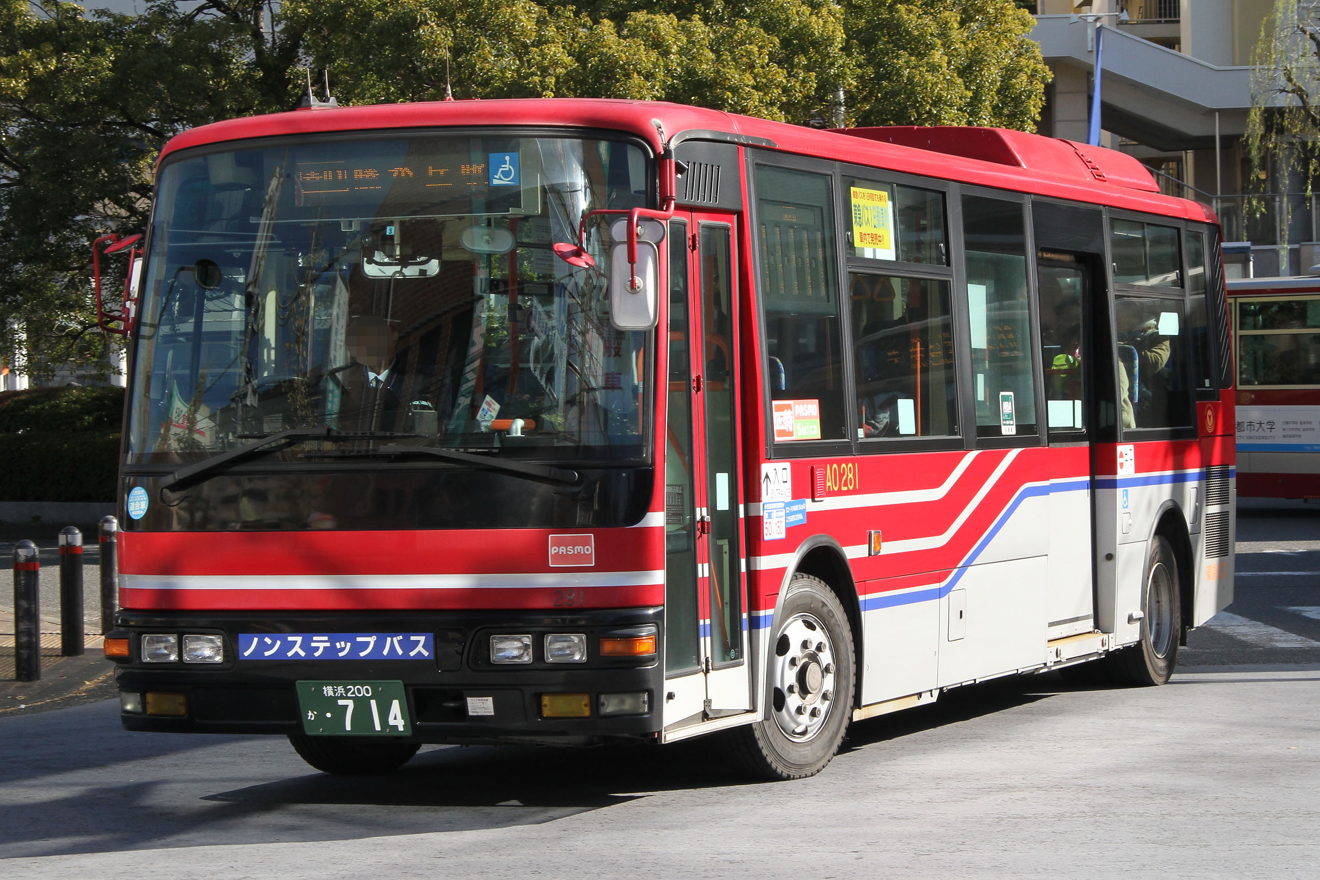 Tokyu Bus car (Tokyu Coach livery) 東急バスの車両（東急コーチ塗色）